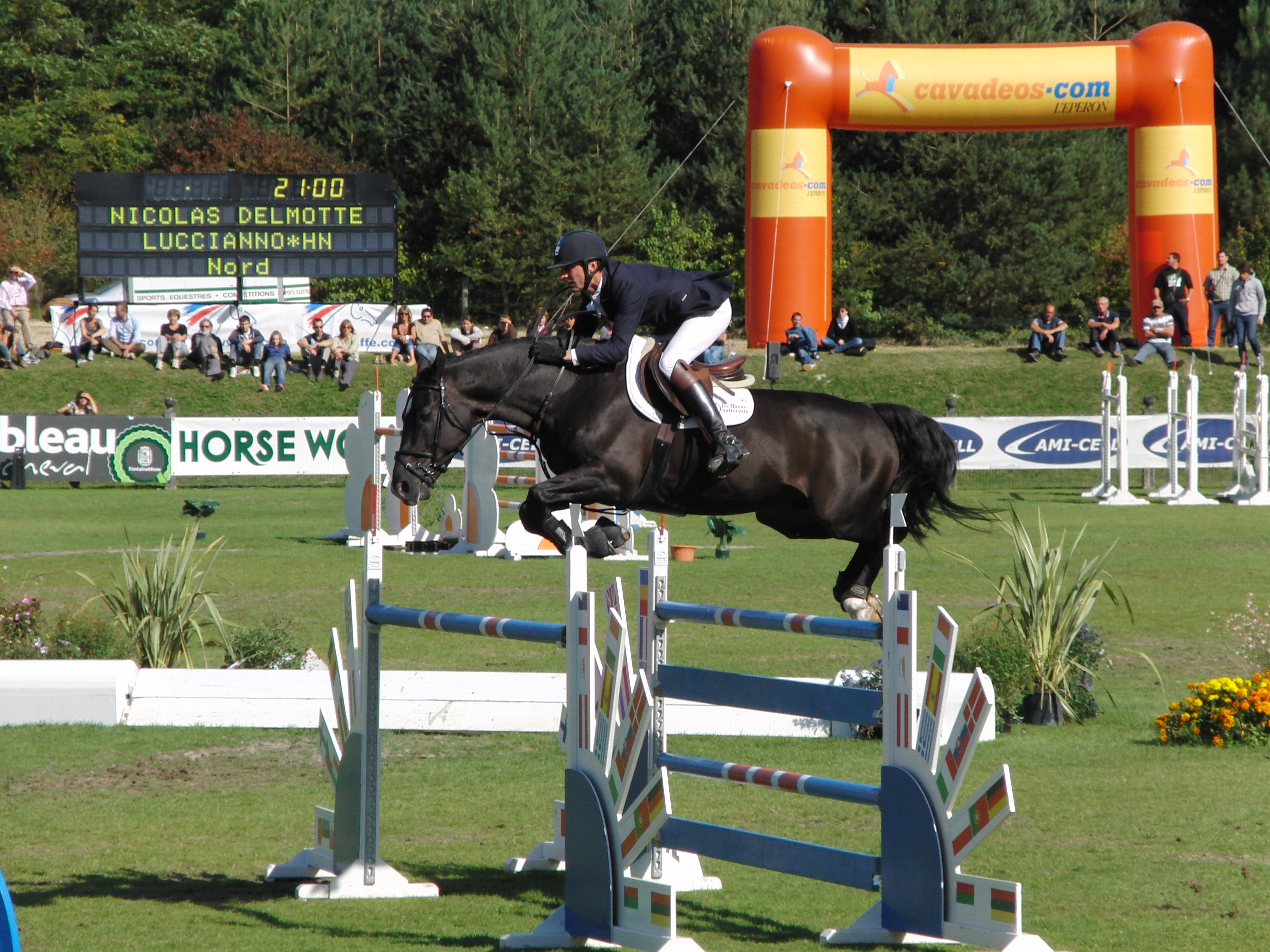 Nicolas Delmotte and Luccianno*HN, Selle français - Championnats de France de saut d'obstacles "Master Pro" 2010 at Fontainebleau, France